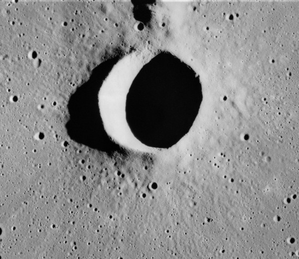 Wichmann crater, on the moon.